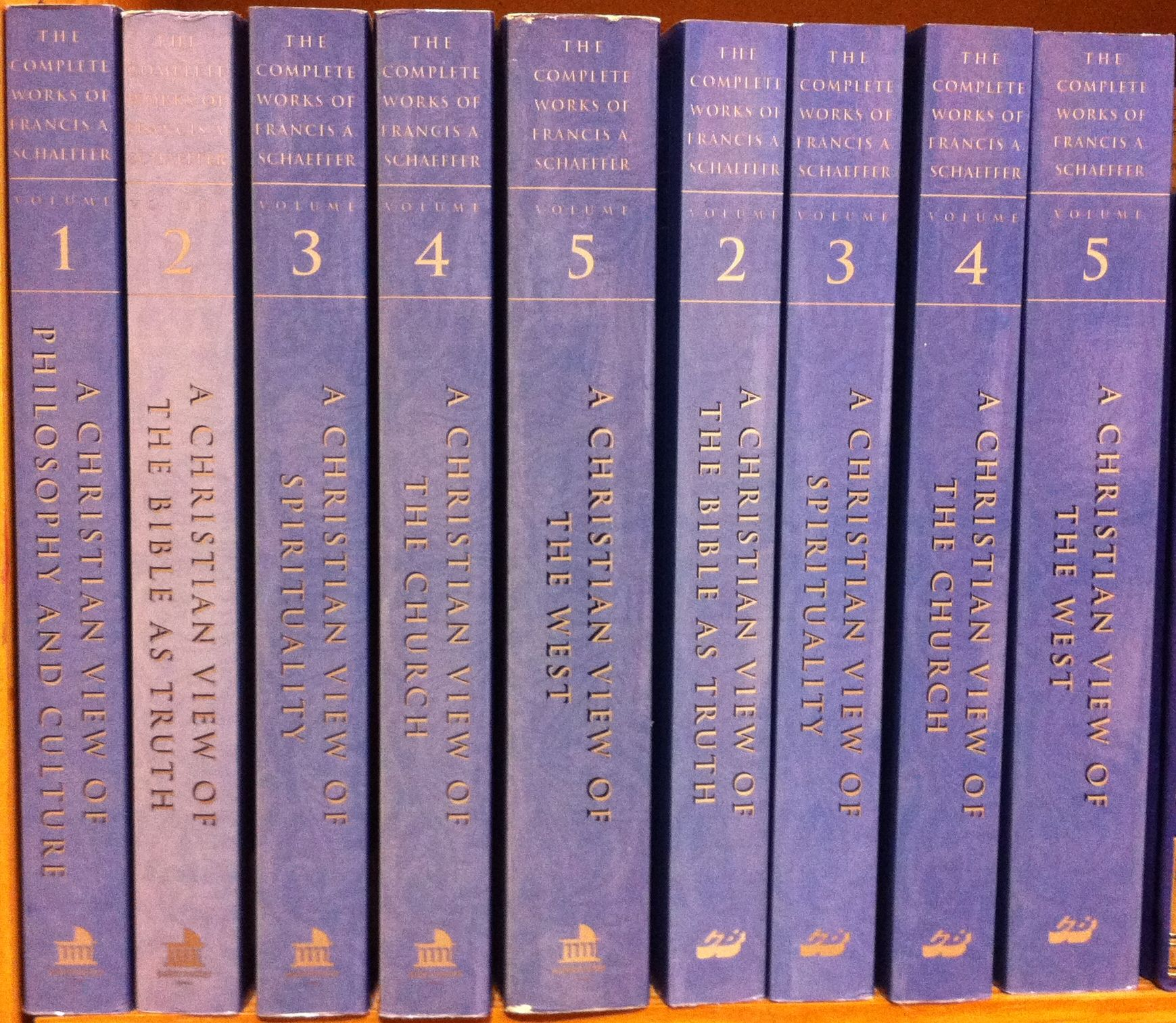 The complete works of Francis Schaeffer, multiple books now all in one set.